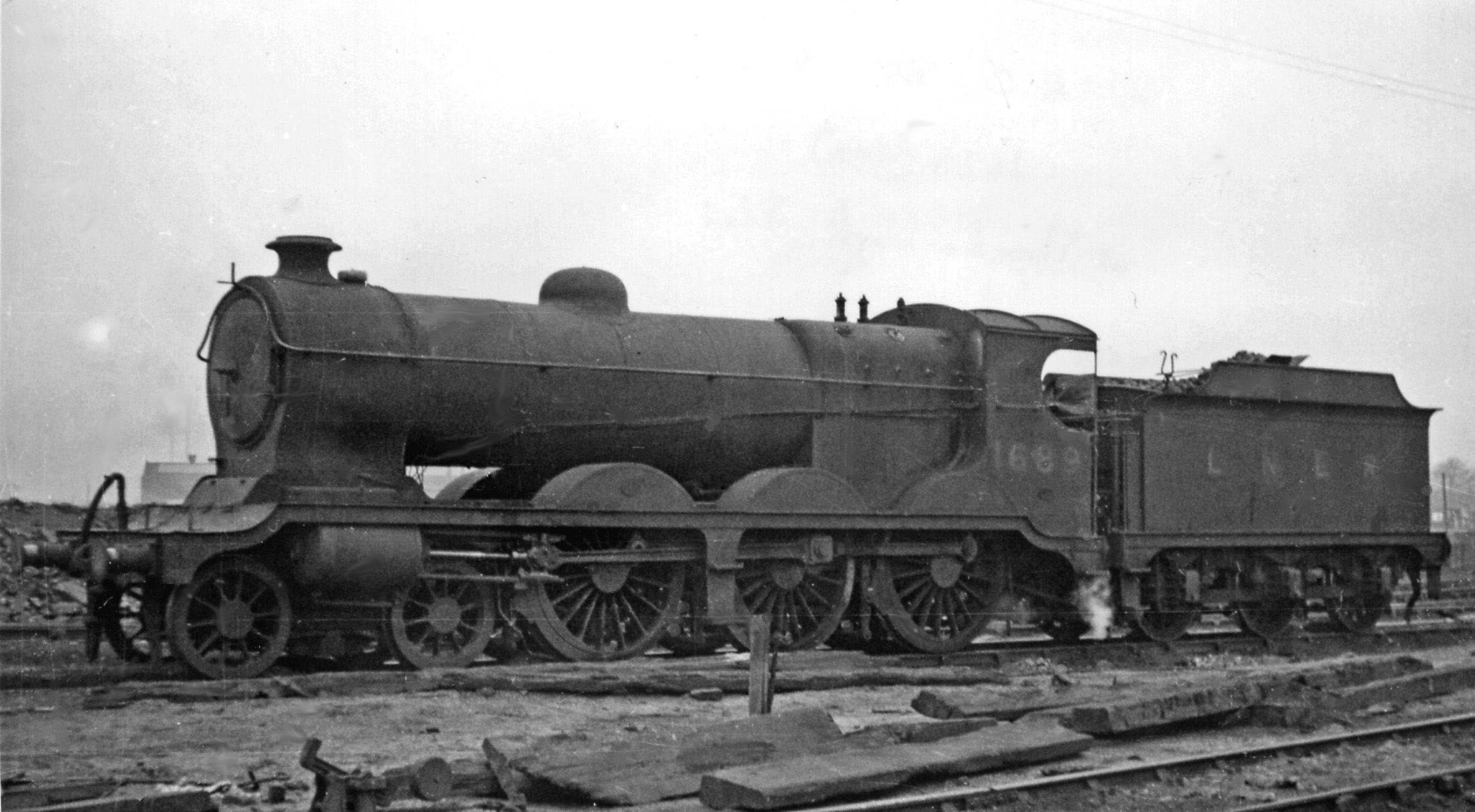 Ex-Great Central 'Fish' class 4-6-0 at Mexborough Locomotive Depot. LNER Class B5 No. 1689 was one of the earlier Robinson 4-6-0s, built 2/1904, became LNER No. 5186 and was withdrawn in 10/49, six months after this photograph. It looks ready to retire, having been relegated to banking up to Dunford Bridge following exhausting work during the war: here it is still in - extremely dirty - LNER livery.